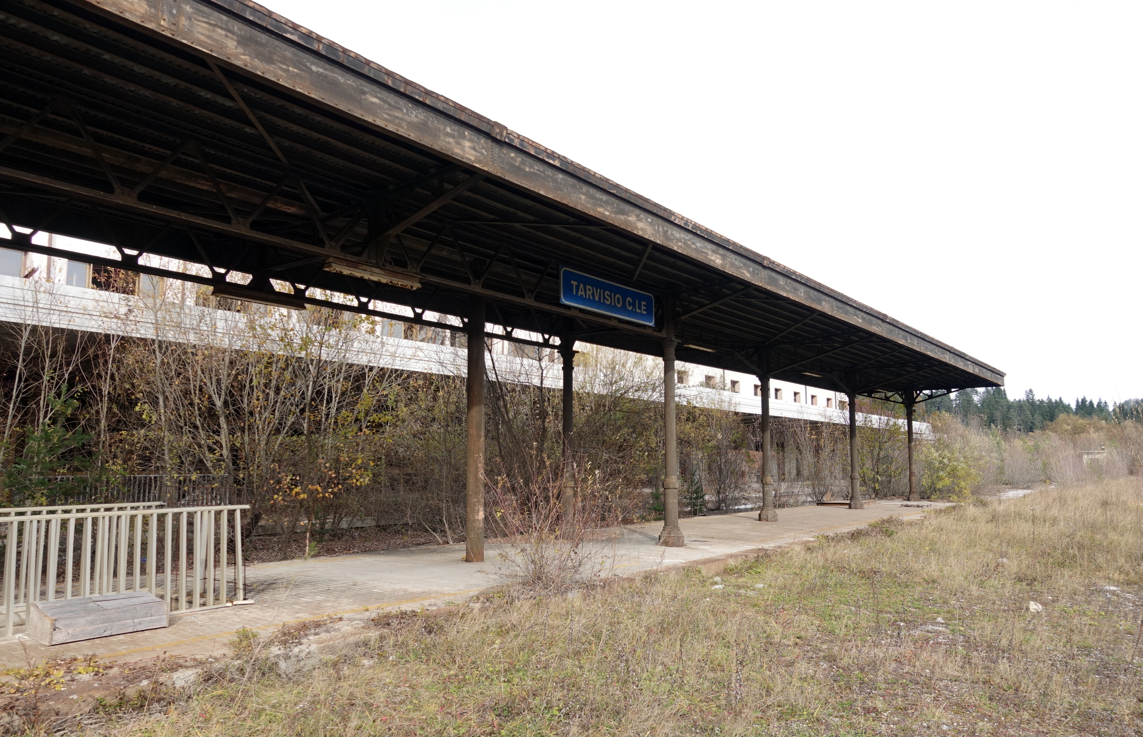 old train station Tarvisio Centrale